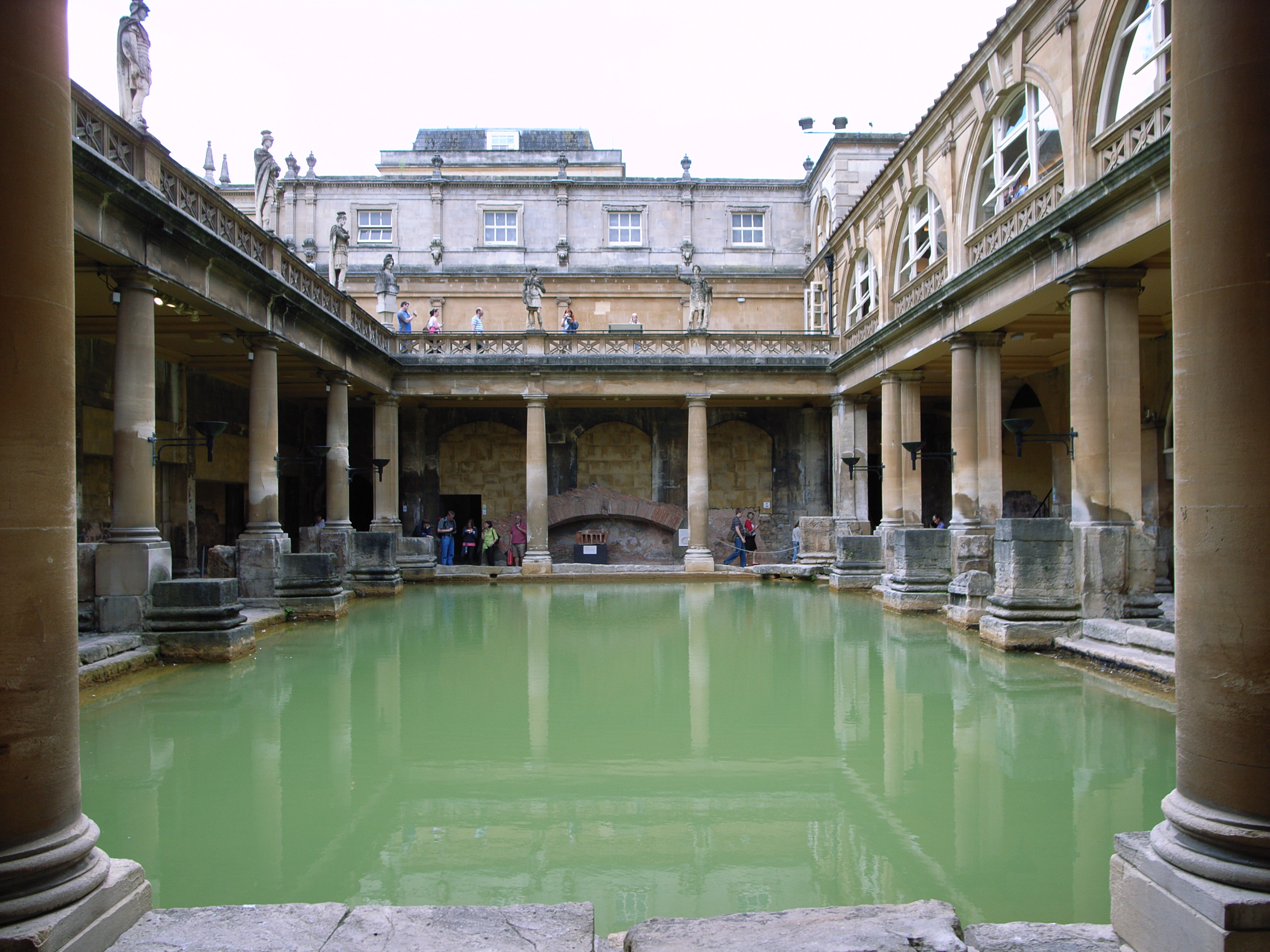 The Great Bath, Roman Baths, originally 1st-3rd century AD, with late 19th century superstructure by John McKean Brydon.